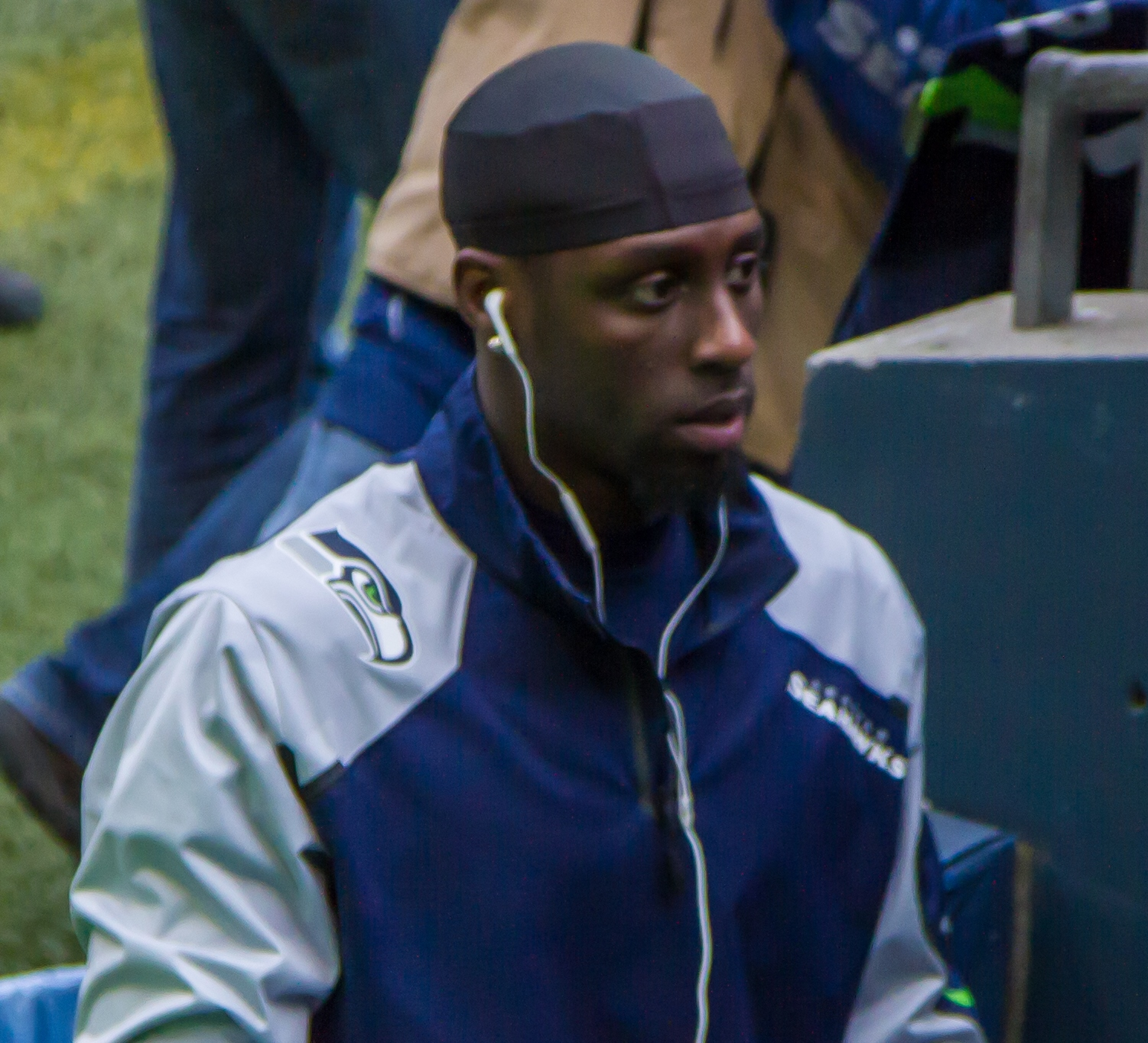 Seattle Seahawks cornerback Kam Chancellor enters the CenturyLink Field locker room before a game.